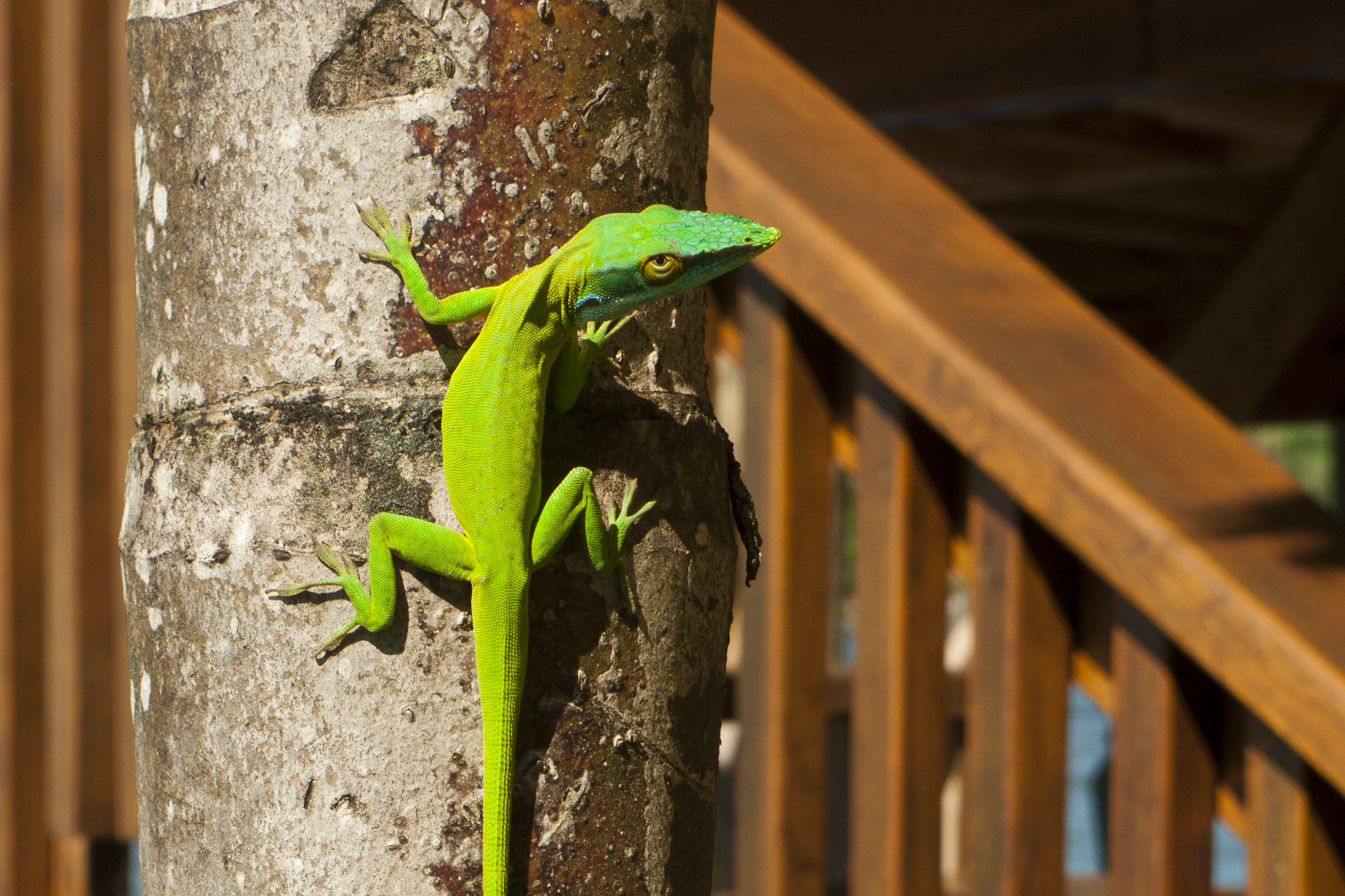 Anolis allisoni on Roatan,Honduras